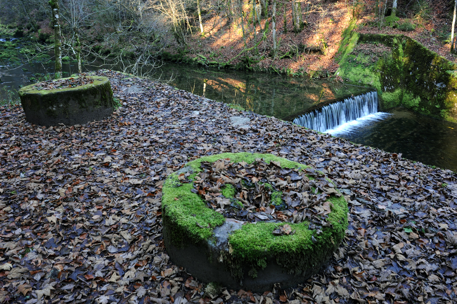 Saint-Sulpice, old mill stones at the Areuse; Val-de-Travers, Neuchâtel.